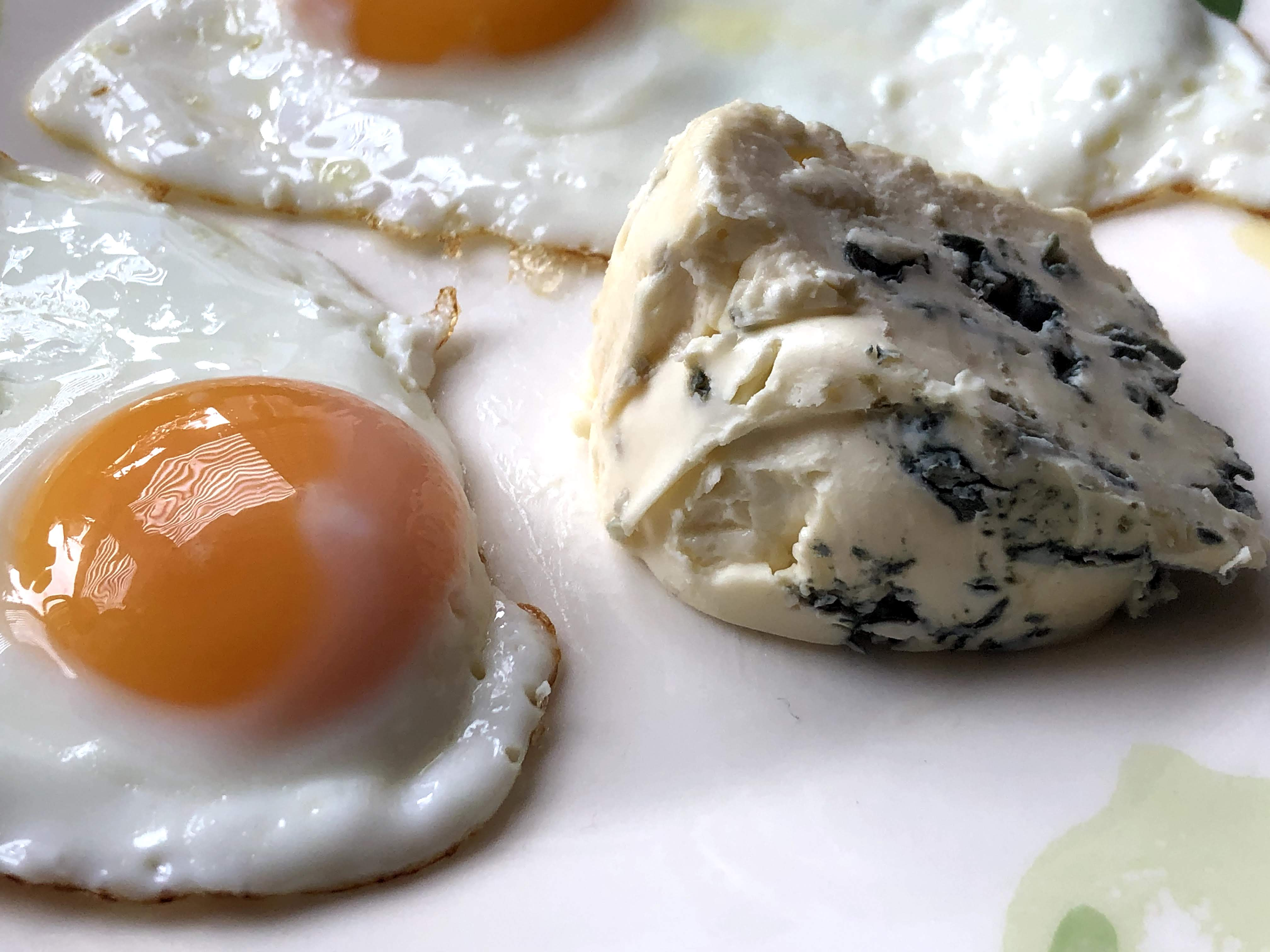 Food cooked at Tudo'rs home. The picture was taken with iPhone X.